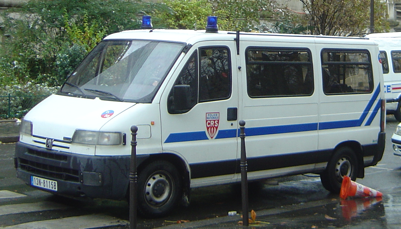 French National Police forces in front of the Grand Palais in Paris, France